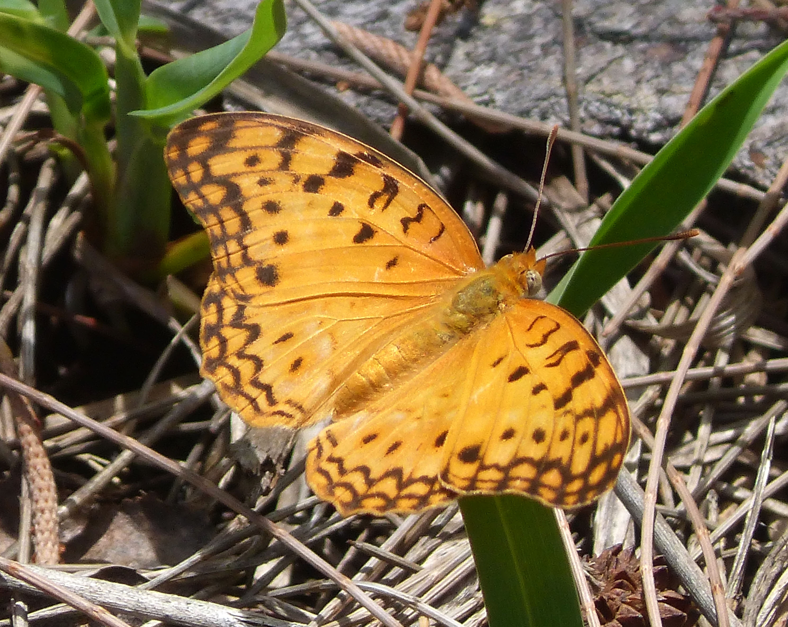 Common Leopard, Phalanta phalantha aethiopica